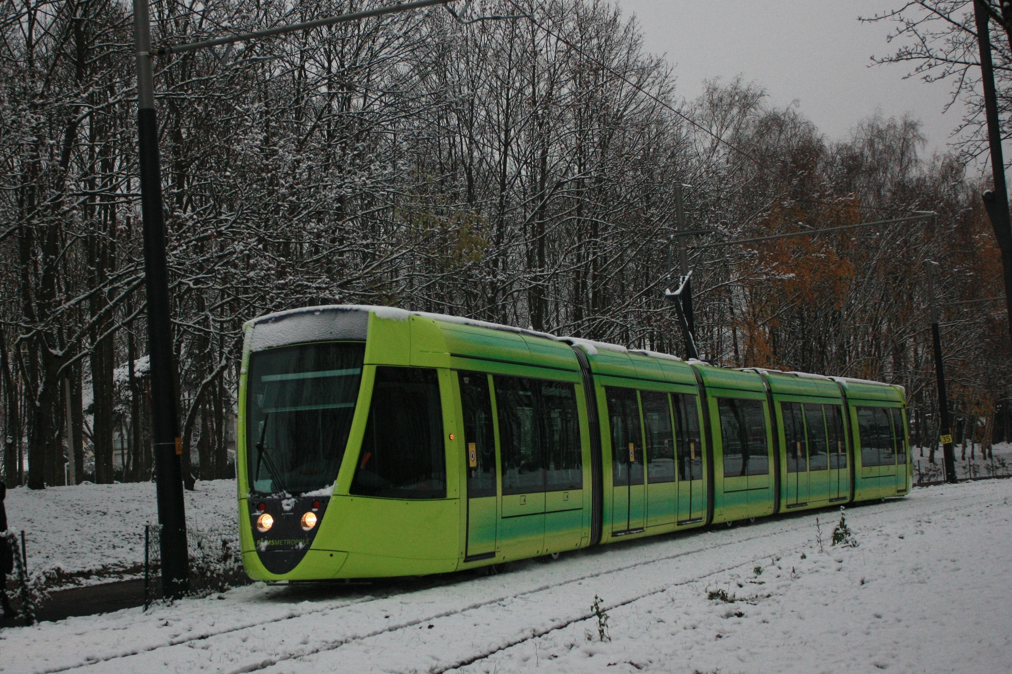 Alstom Citadis TGA 302 TORA on test. Rheims France.